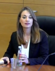 Knesst member Yifat Shasha-Biton